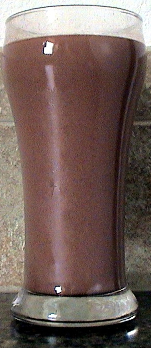 A glass of chocolate milk.